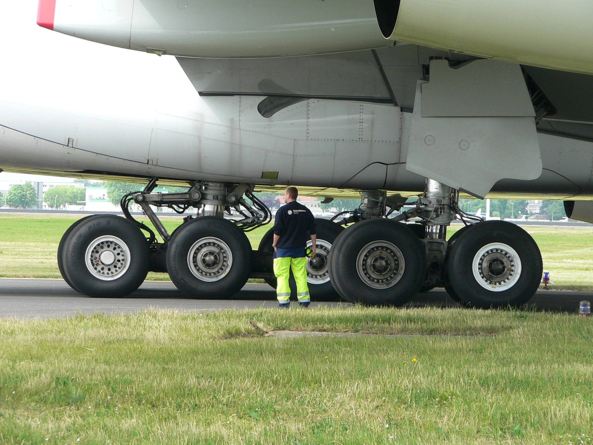 Airbus 380 at ILA 2006